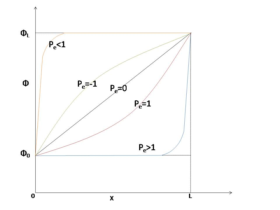 Graph depicting relation between face value and distance in Power Law Scheme in CFD